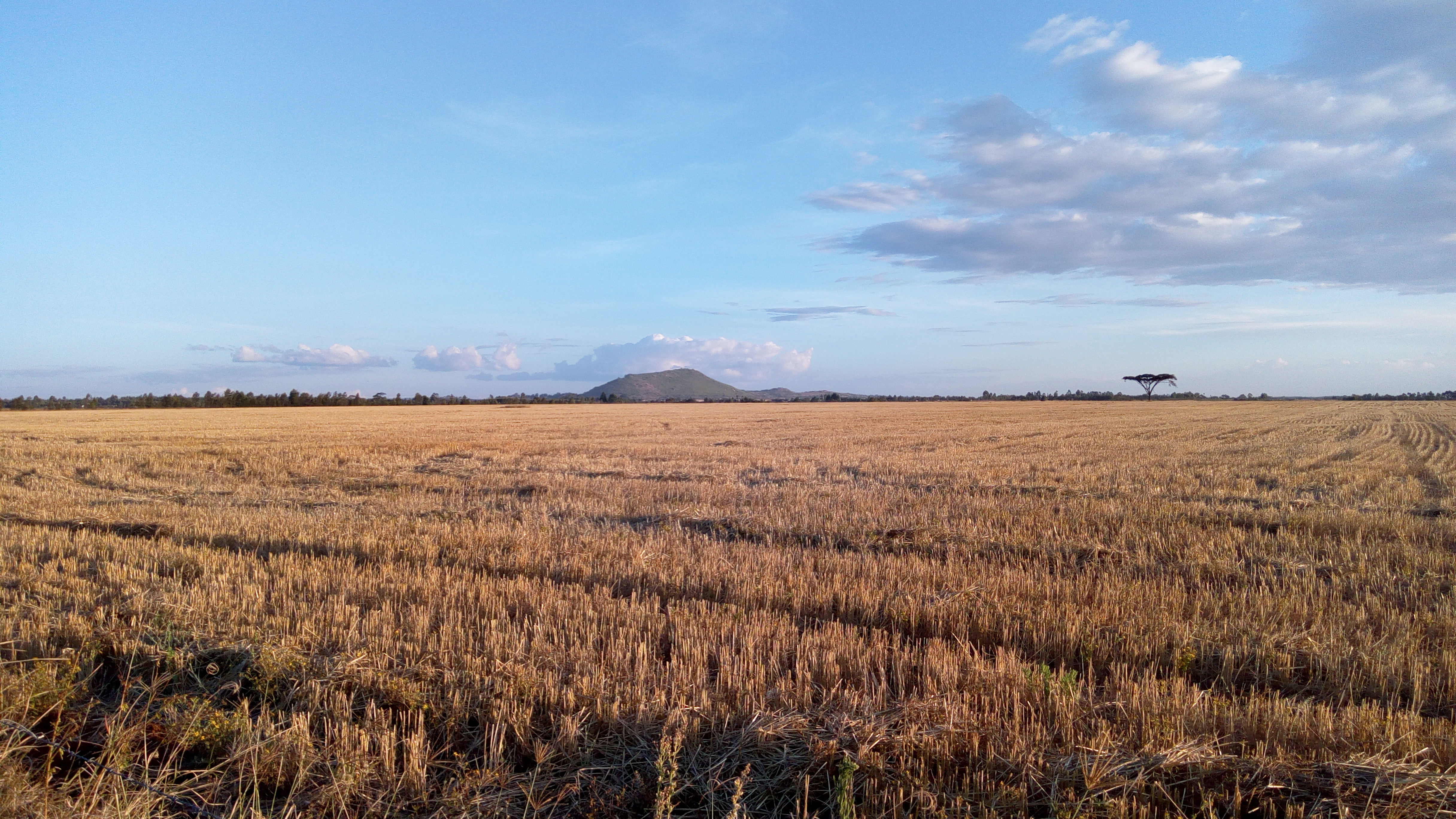 Uasi Ngishu Farmlands near Tugen Estate with sergoit hill in the background